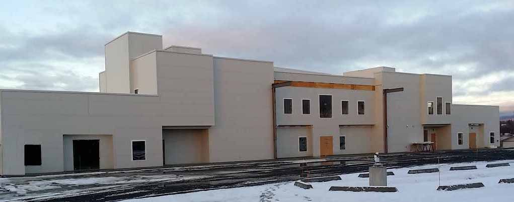 ICCA pic